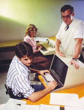 Students Michael Leach and Elizabeth Broderick use a terminal (which is most probably connected to a UNIX machine) in the School of Electrical Engineering with Associate Professor John Lions. Michael Leach is using a video terminal and Elizabeth Broderick is using a hard copy terminal.